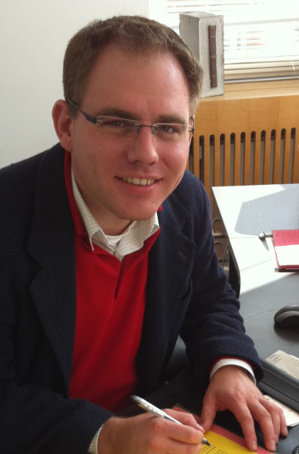 Christoph Meineke signing contracts